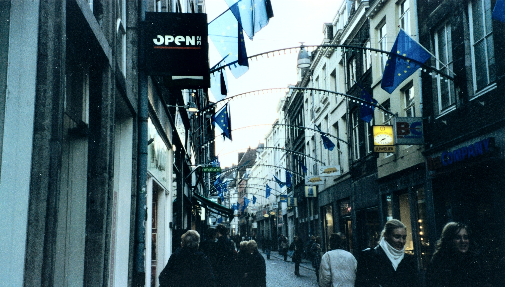 A shopping street in the centre of Maastricht in the Netherlands. Photograph by User:Redvers originally from wikipedia, now transferred to Commons. Note that the photograph has been altered by the author since the original upload and that the licence status has changed from Own Work GDFL to the more explicitly free Own Work Public Domain All Rights Released.